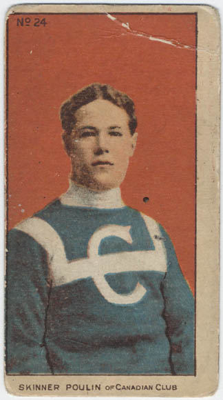 Cigarette pack hockey card of Skinner Poulin